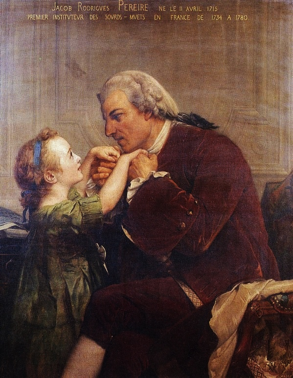 Jacob Rodrigues Pereira (1715-1780), a Portuguese academic, and the first teacher of deaf-mutes in France.